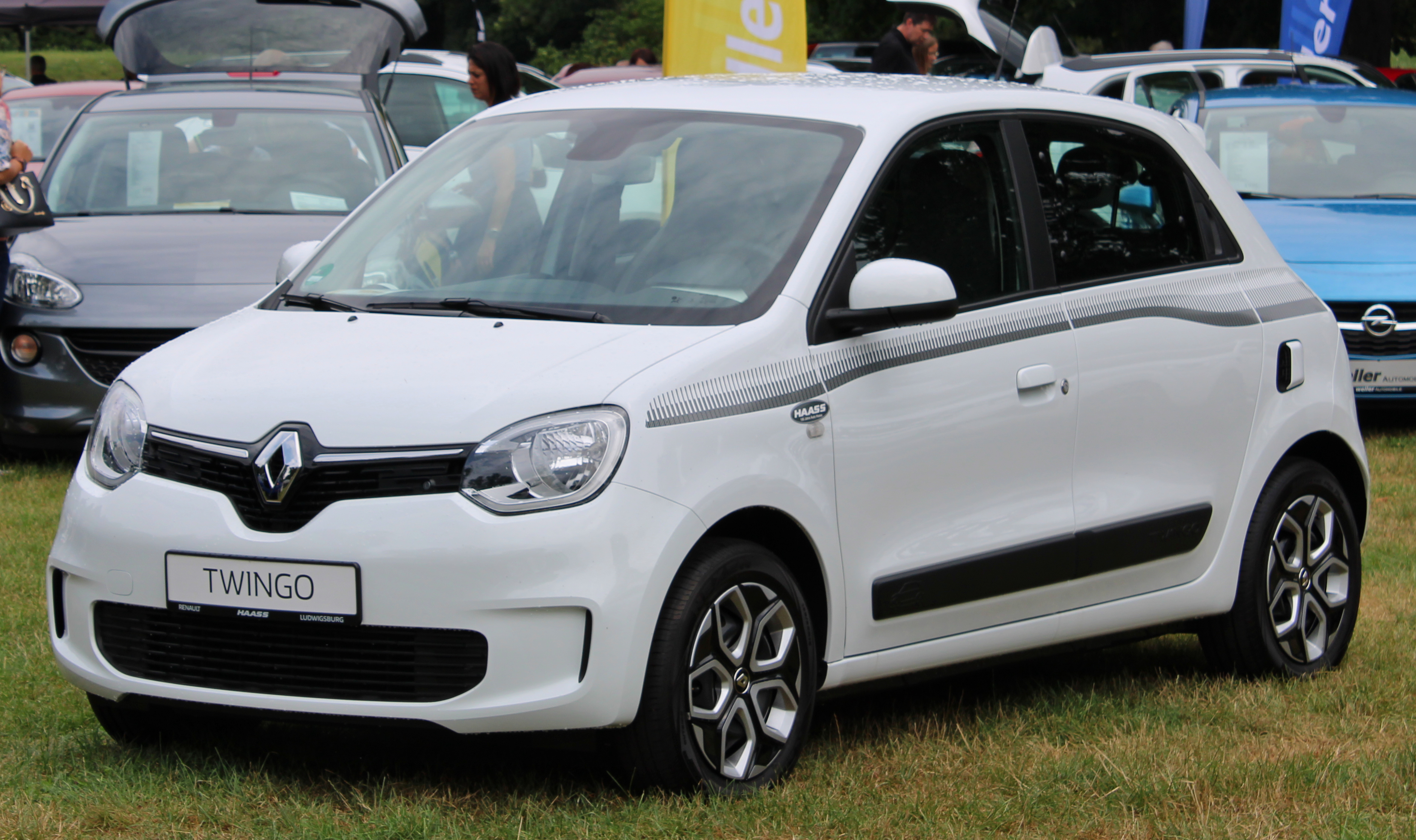 Renault Twingo at Schloss Monrepos 2019